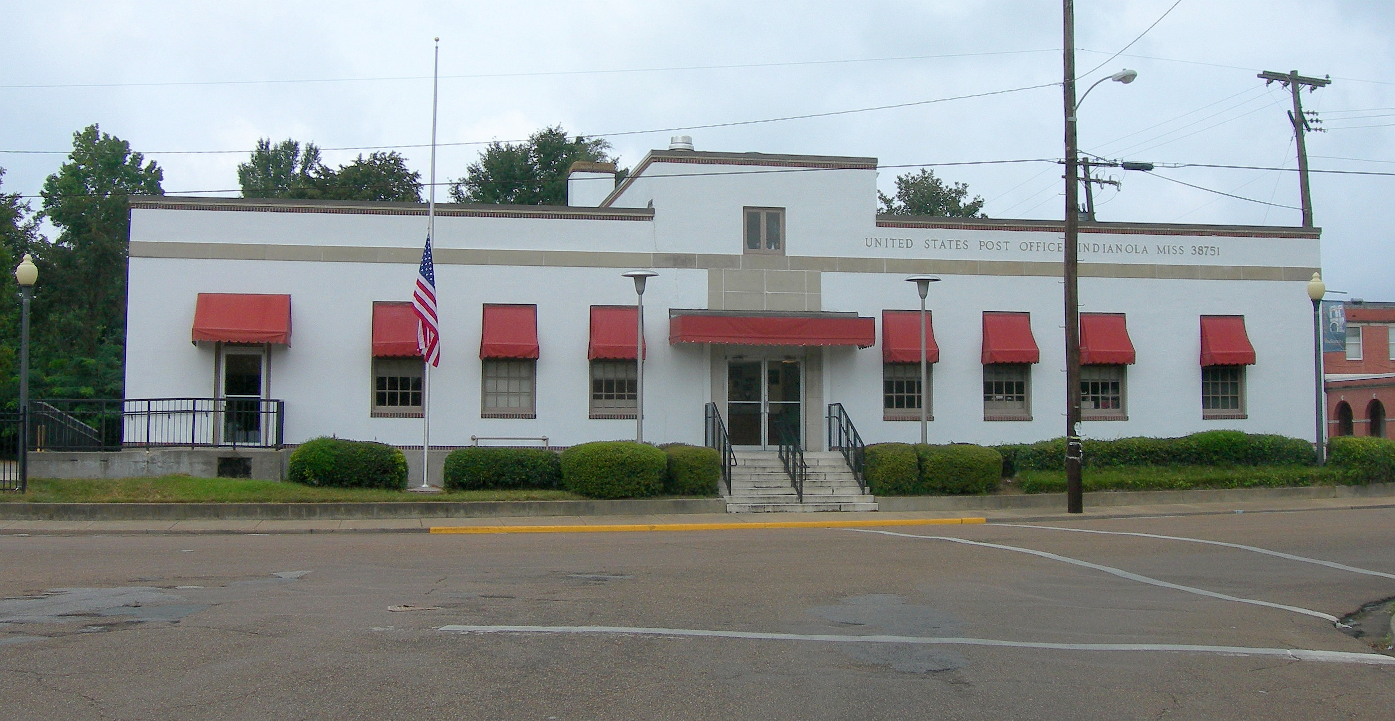 The Indianola Post Office in Indianola. A New Deal mural entitled "White Gold in the Delta" was painted by Beula Bettersworth in 1939 for this office. However, it was destroyed during post office renovations in the 1960s. In 2008, the building was named the Minnie Cox Post Office Building by an act of Congress.